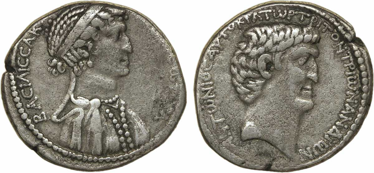 Cléopatre et Marc Antoine